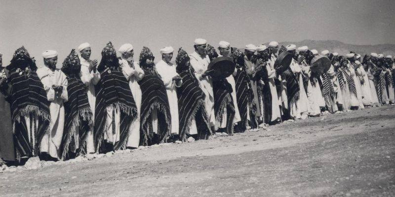 Ahidus (Berber languages: ⴰⵃⵉⴷⵓⵙ), also sometimes called ahidous, haidous, tahidoust or hidoussi, is a style of collective performance in Morocco. It is the traditional dance in many Berber tribes and is known to be the favorite entertainment of these tribes. In the traditional Ahidus performance, singers and dancers, along with men and women standing alternately shoulder to shoulder, form either a large circle or two facing lines. The man who accompanies and directs the dancers stands in the center of the formation. The performance includes other key people, such as a singer-poet (or ammessad in Berber), assisting singers and drummers. This photo has been taken in the country: Unknown